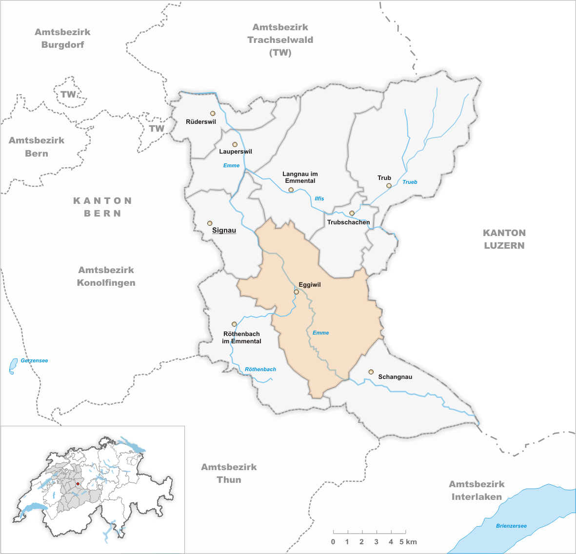 Municipality Eggiwil